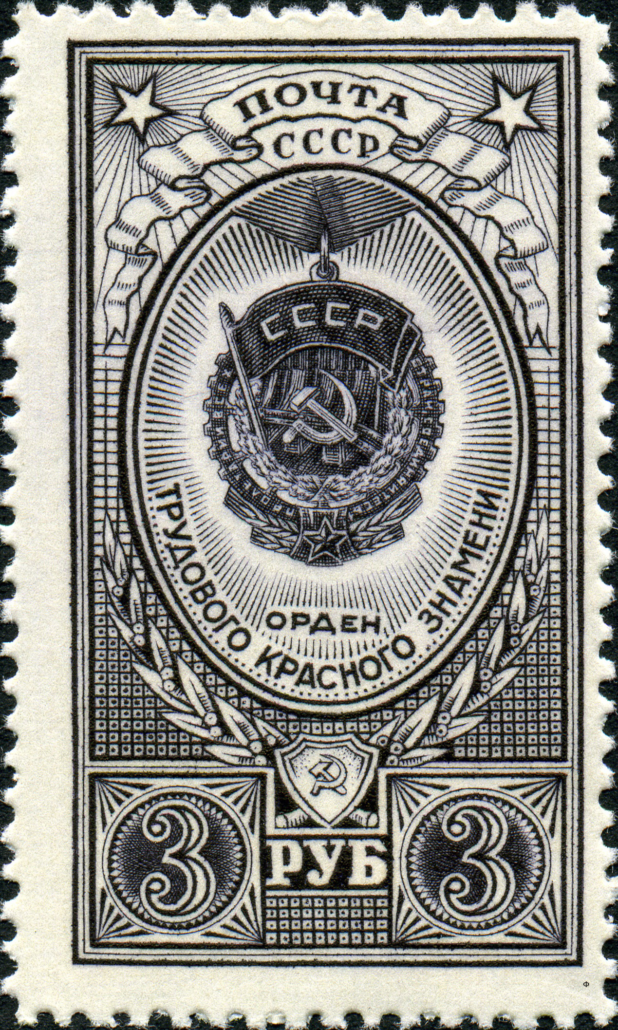 A USSR stamp, Awards of the Soviet Union